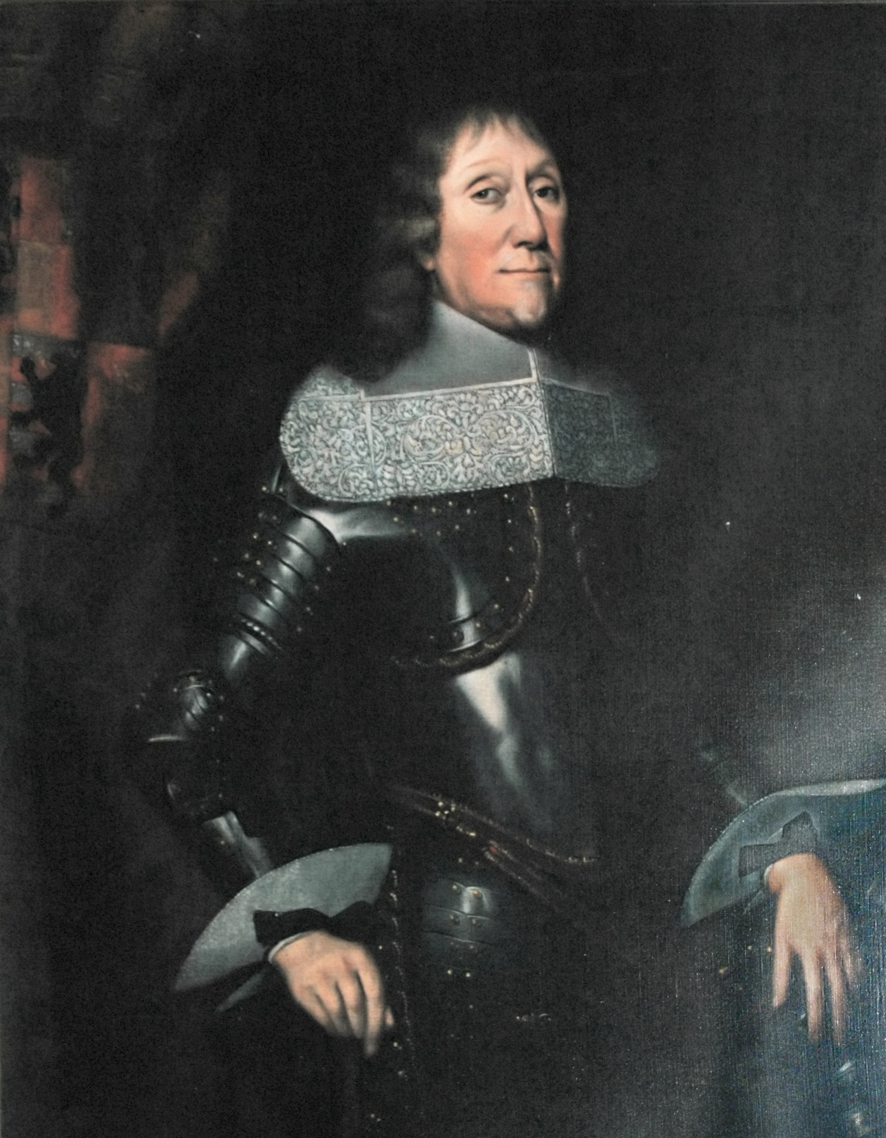 Contemporary portrait of Adriaan van Hoensbroeck